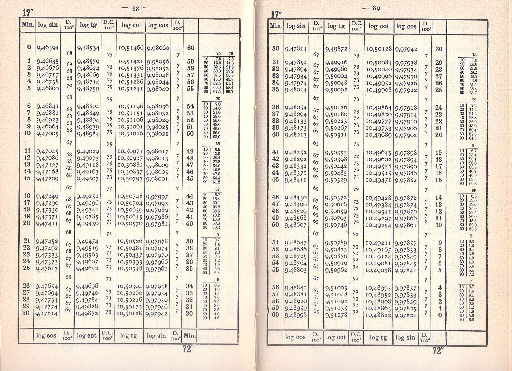 Sample page from trigonometric table